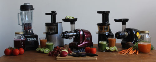 The Vitality 4 Life cold press juicer range